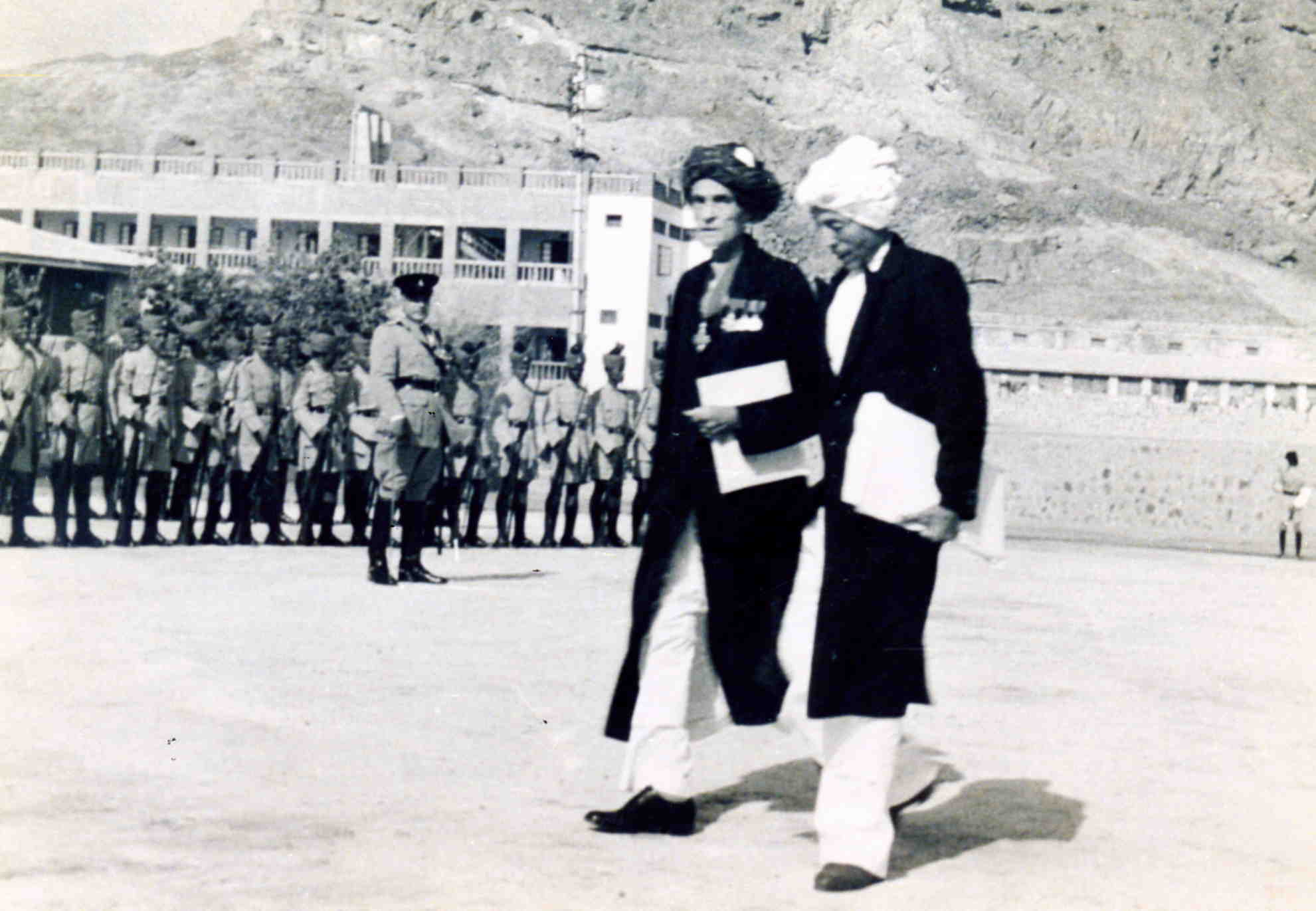 من اليمين الخان بهادر محمد سالم علي والخان بهادر محمد عبدالقادر مكاوي